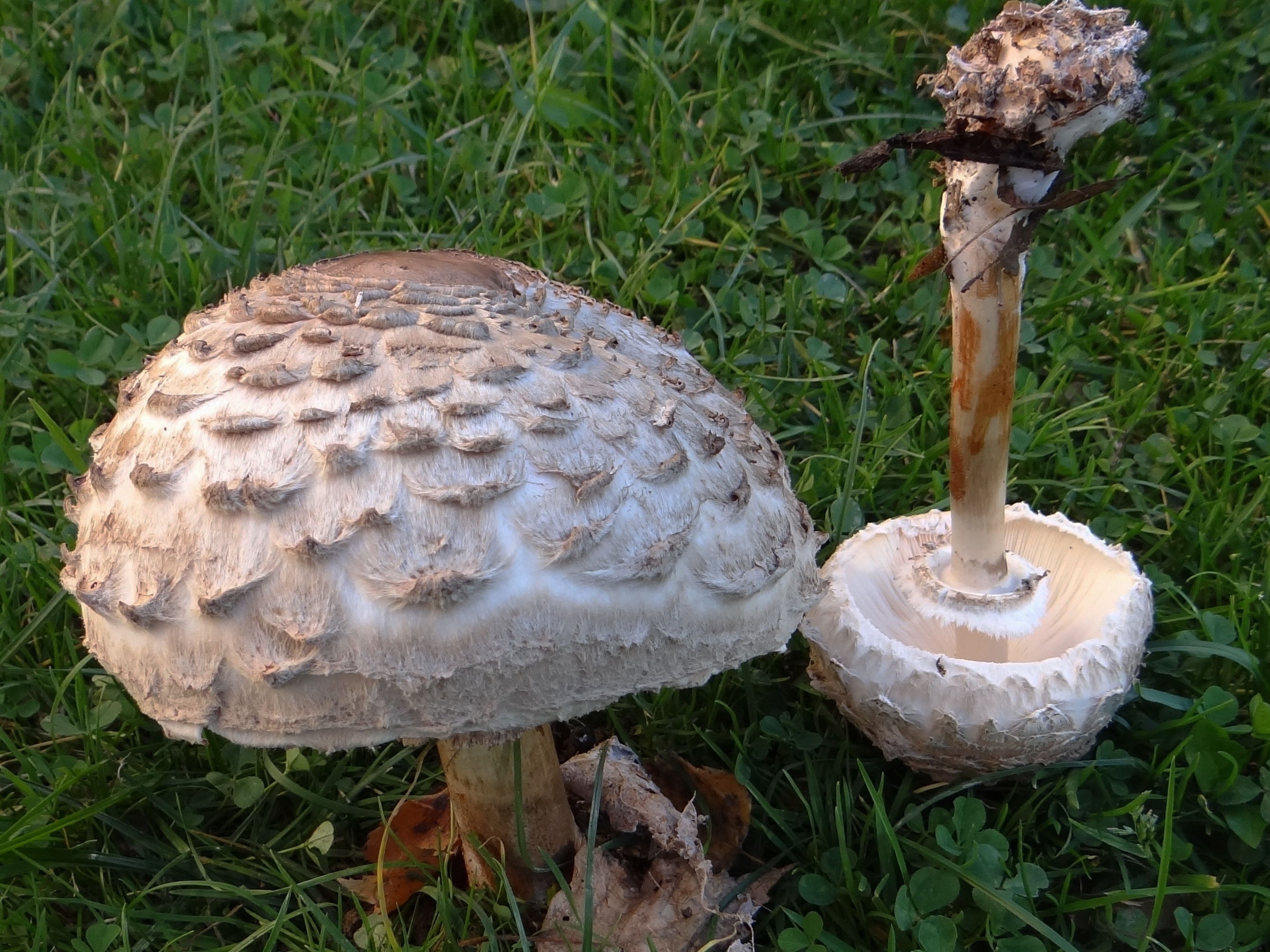 Chlorophyllum rachodes (location: Poland)